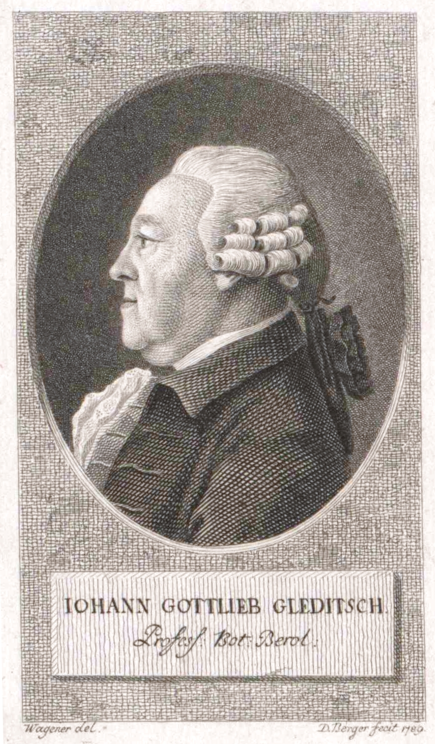 Johann Gottlieb Gleditsch (1714-1786), German botanist, forestry scientist and physician